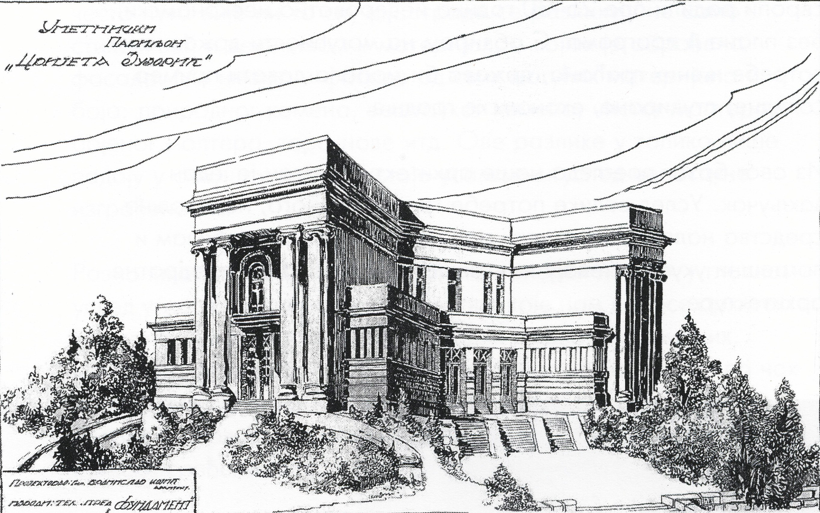 Art pavilion "Cvijeta Zuzorić" designed by Branislav Kojić